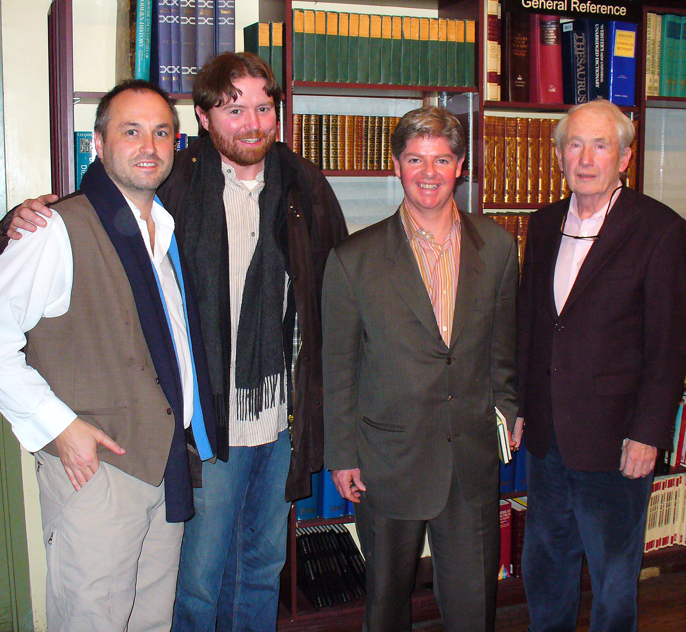 Colum McCann, Christy Kelly, Christopher Cahill and Frank McCourt at New York City's Housing Works bookstore for a tribute to recently-deceased Irish poet Benedict Kiely. Photographer's blog post about the death of Frank McCourt and the memory of this photo.